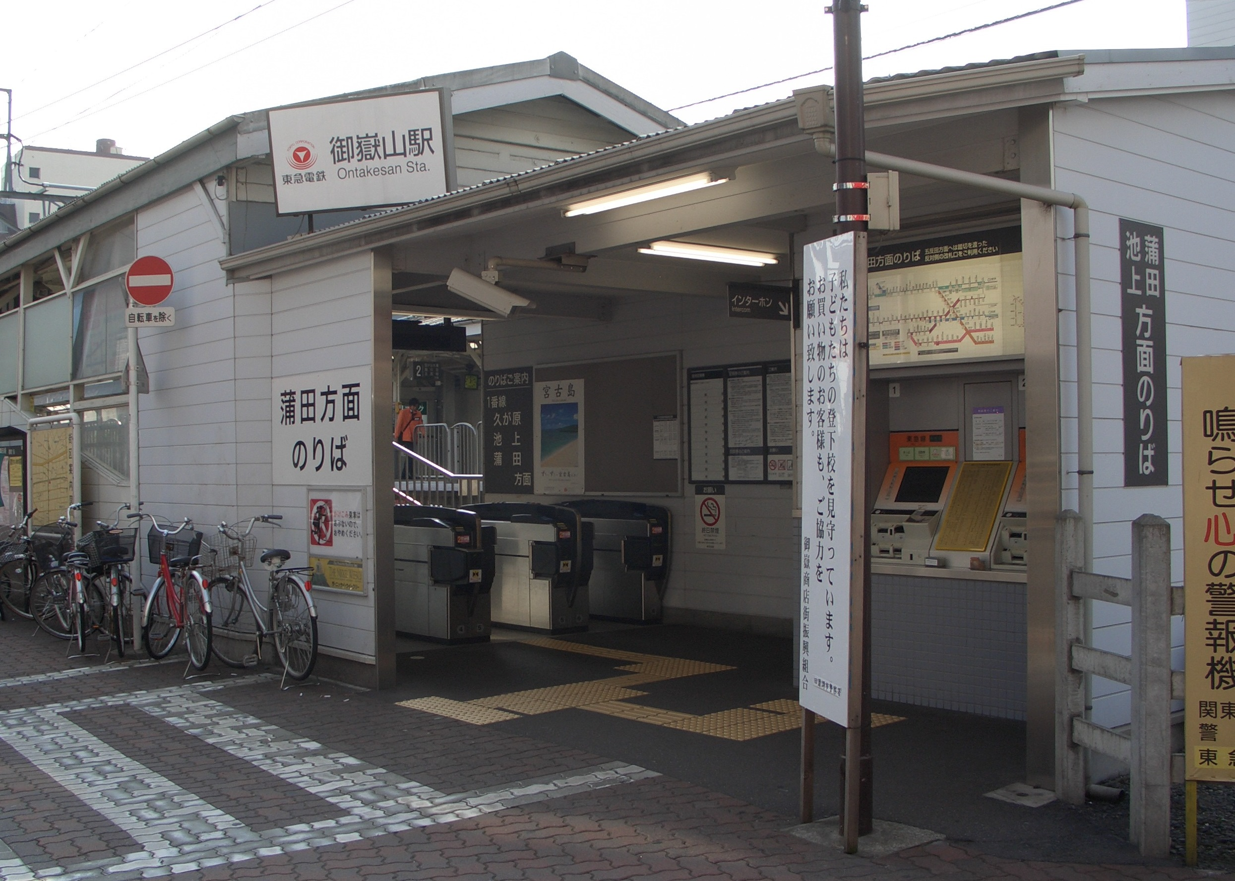 The Kamata-bound platform entrance to Ontakesan Station on the Tokyu Ikegami Line in Tokyo, Japan